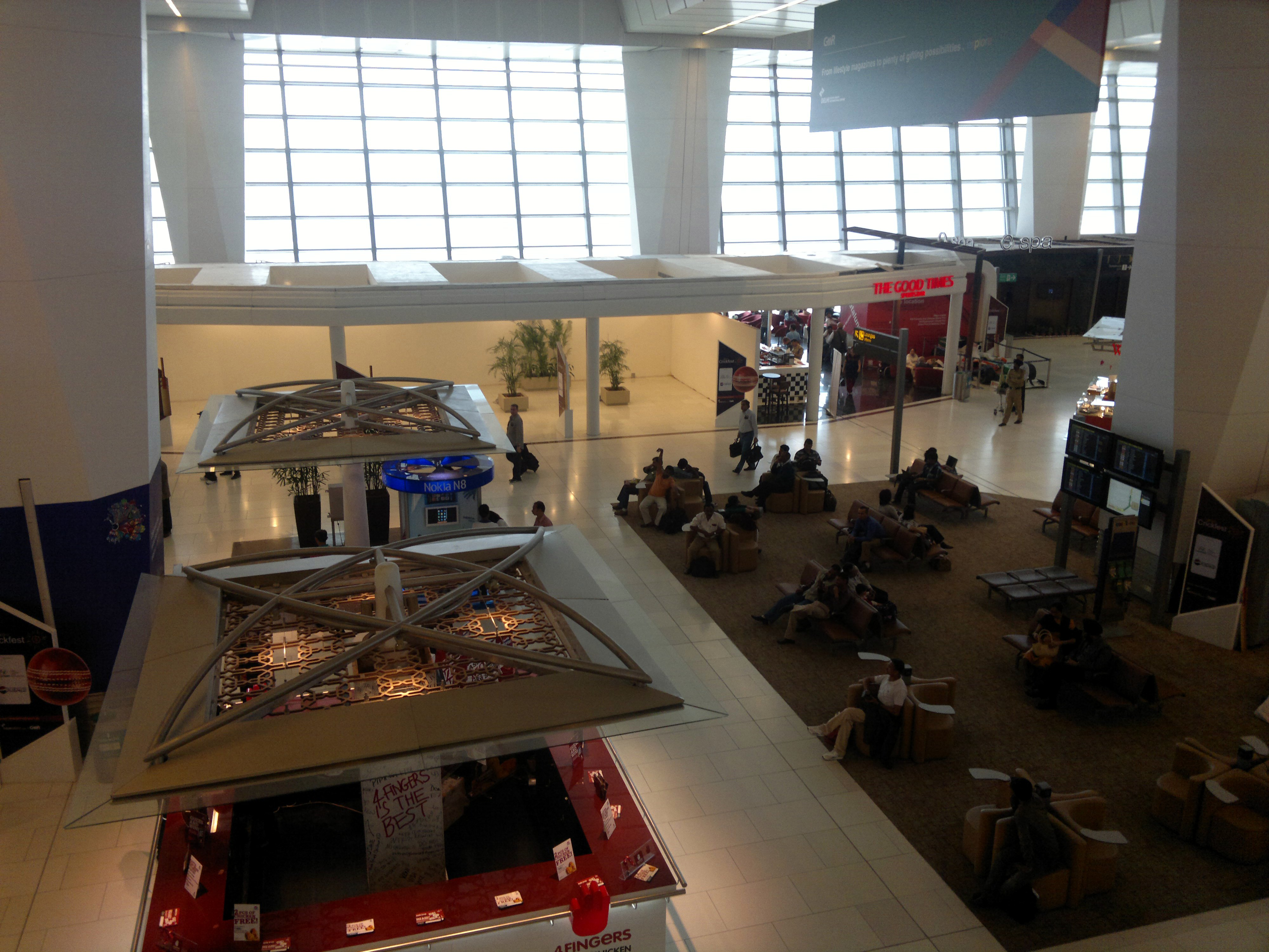 Indira Gandhi International Airport. Terminal-3, designed by HOK working in consultation with Mott MacDonald, the new Terminal 3 is a two-tier building, with the bottom floor being the arrivals area, and the top being a departures area. This terminal has 168 check-in counters, 78 aerobridges at 48 contact stands, 30 parking bays, 72 immigration counters, 15 X-ray screening areas, for less waiting times, duty-free shops, and other features.